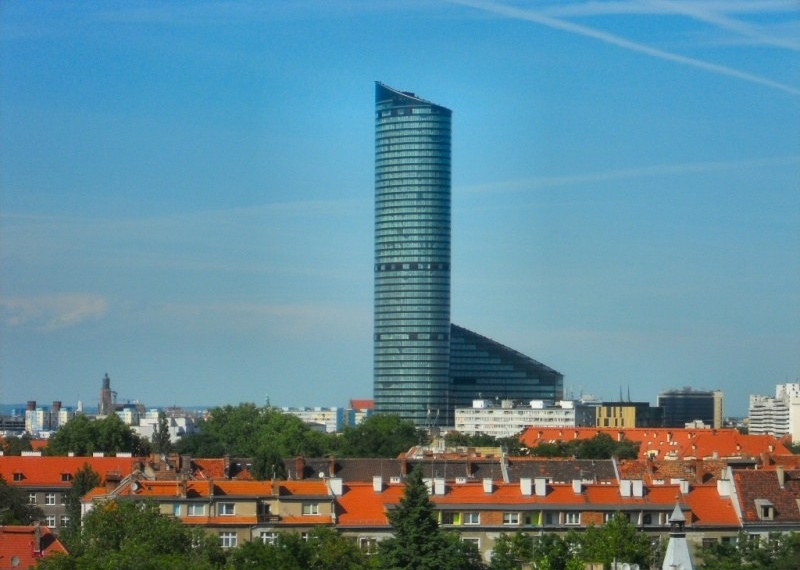 Sky Tower in Wrocław, Poland